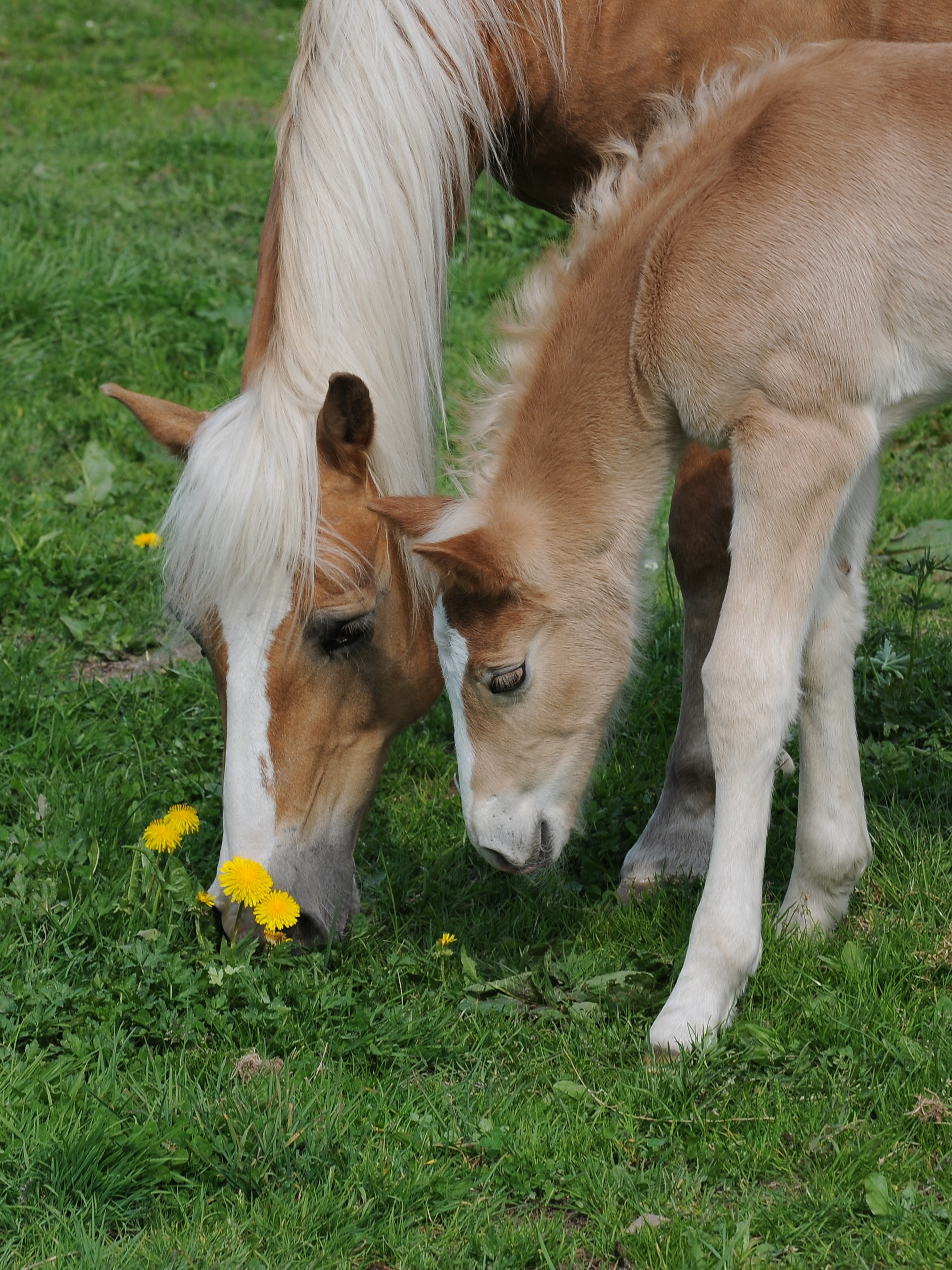 The Haflinger is a breed of horse developed in Austria and northern Italy during the late 1800s.